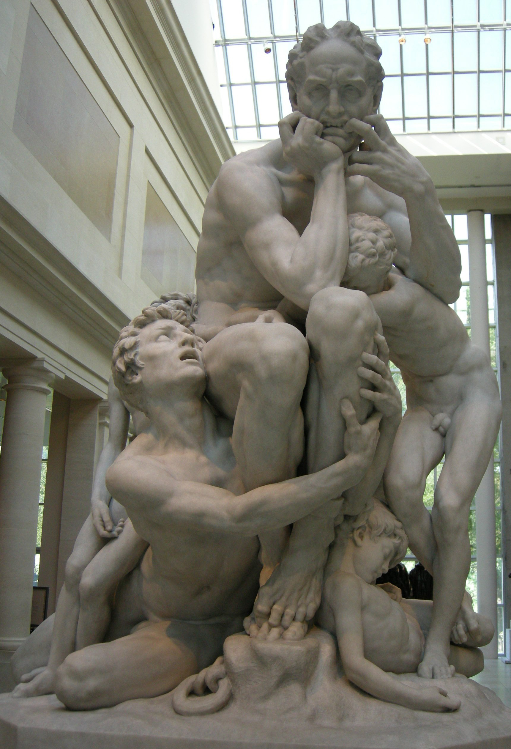 Jean-baptiste carpeaux, ugolino and his sons, 1857-60